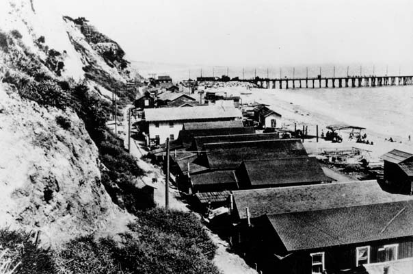 Japanese fishing village next to the Long Wharf in Santa Monica, California, in 1900.